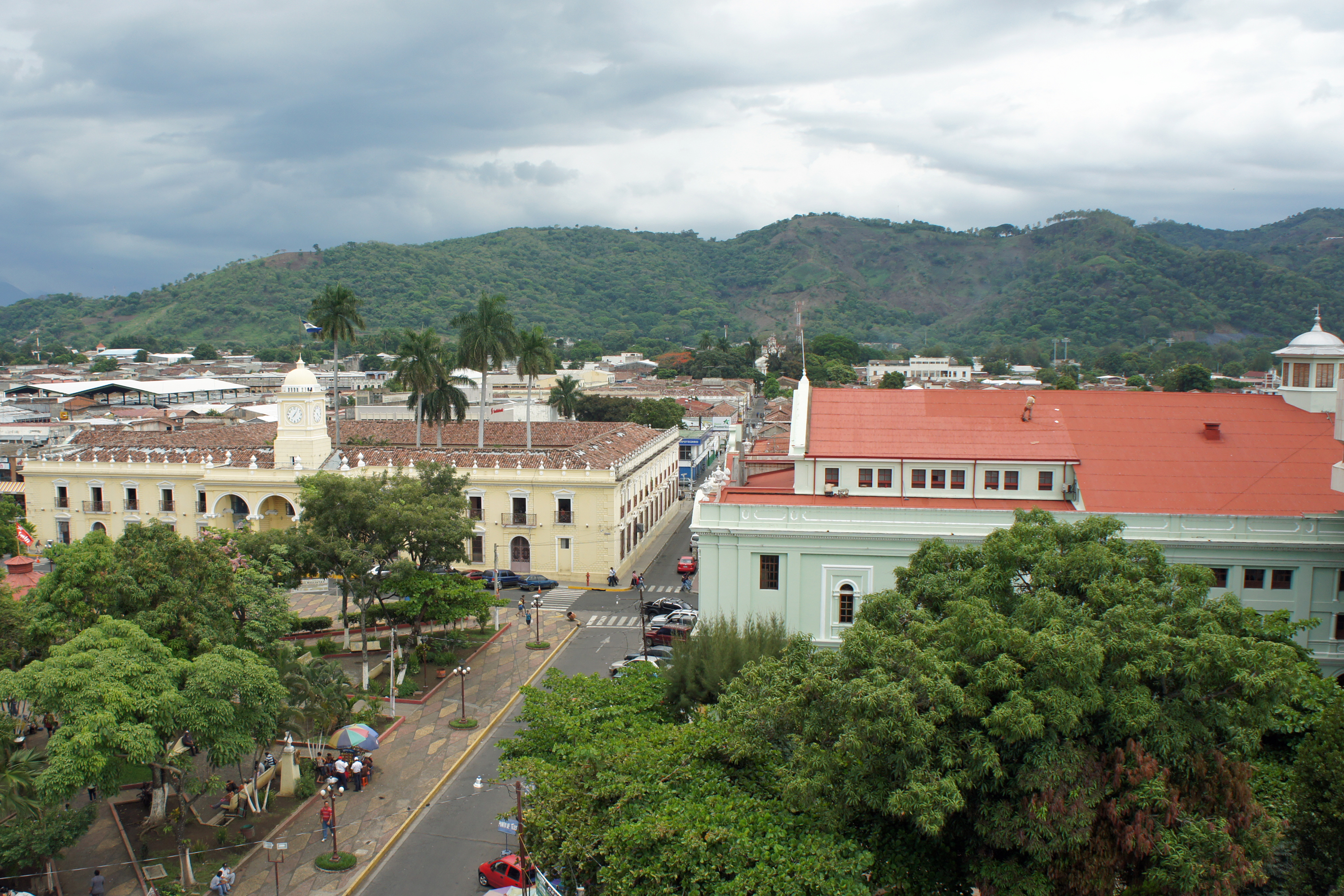 Municipal Palace and Santa Ana Theater, Santa Ana, El Salvador